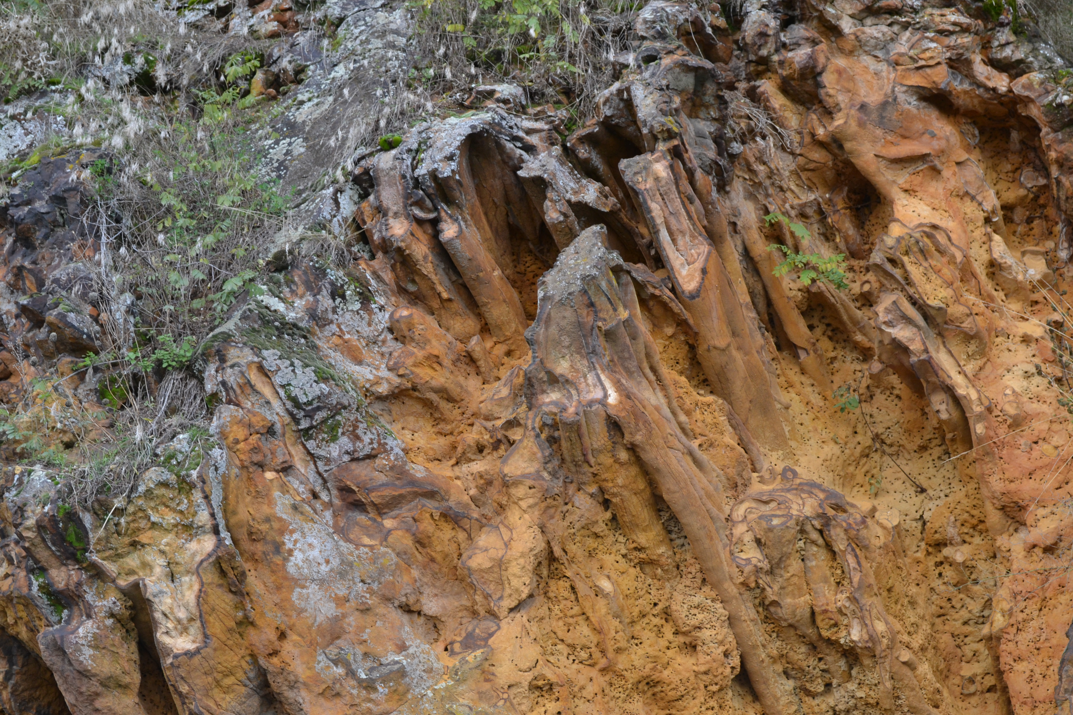 The so-called lightning tubes near Battenberg, Rhineland-Palatinate (Detail)